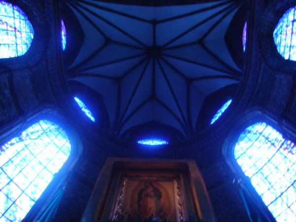 ábside del santuario guadalupano